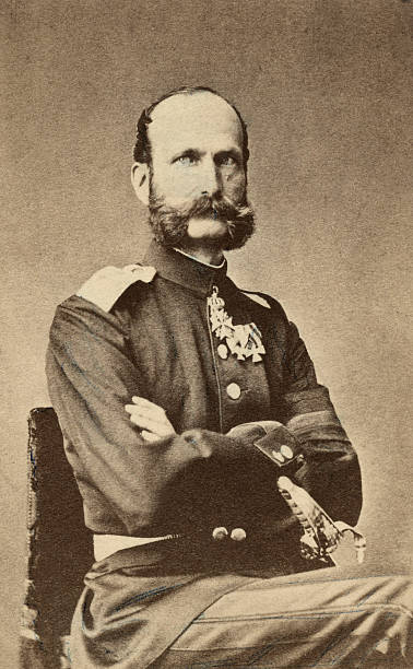 Prince Alexander Ludwig Georg Friedrich Emil of Hesse (1823-1898), third son and fourth child of Louis II, Grand Duke of Hesse, and Wilhelmina of Baden, born in Darmstadt (Germany). Ca. 1870.